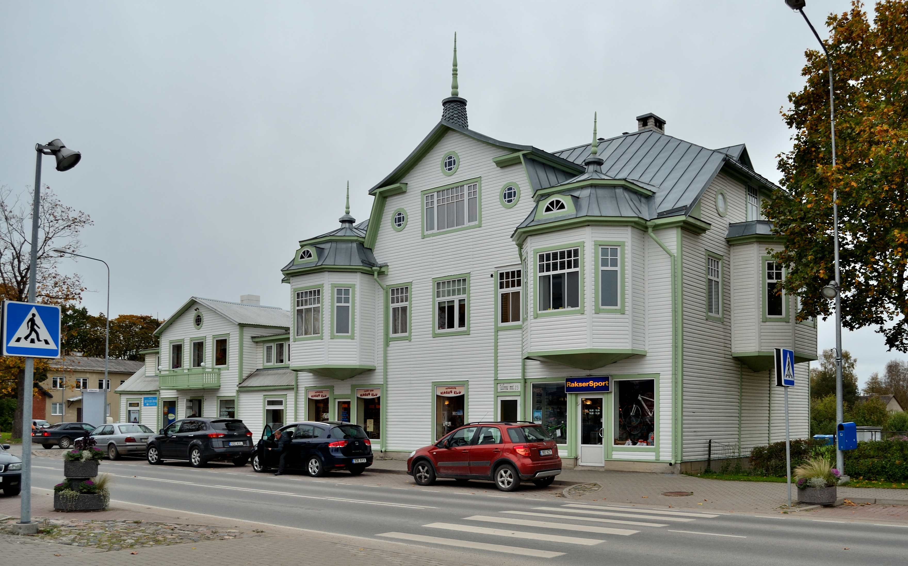 Rapla, house-business building Tallinna mnt 23